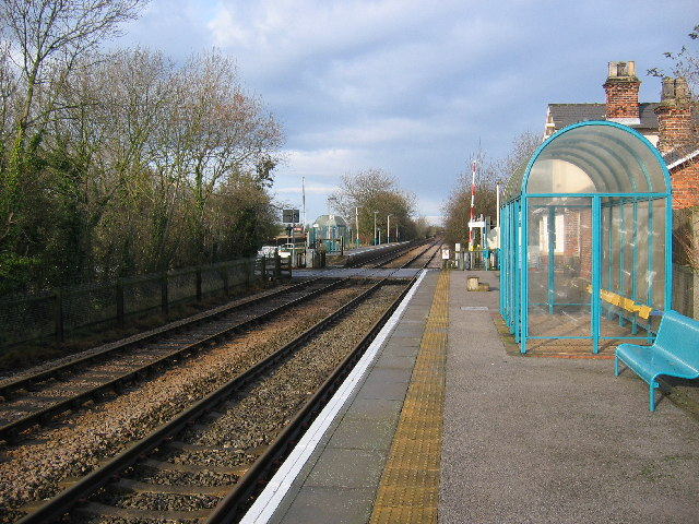 Arram Railway Station, Arram, East Riding of Yorkshire, England.Arram is NE of Leconfield. This view of the station looking north along the line which runs NS through the grid square which is mostly farm land. To the bottom SW corner of the square is M. O. D. property.